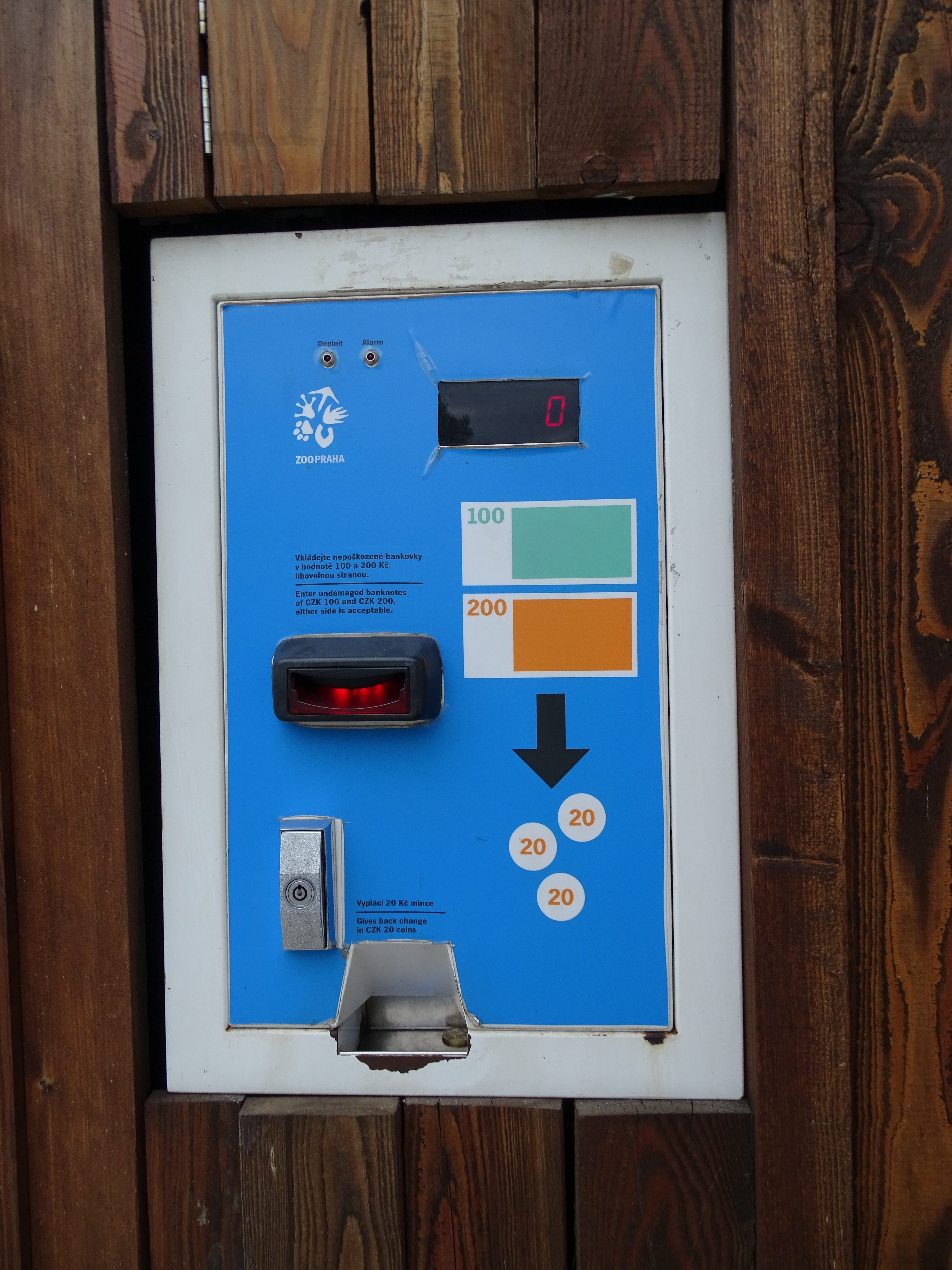 Prague-Troja, Czech Republic. Prague Zoo. A chairlift, the lower station. A money changer machine.